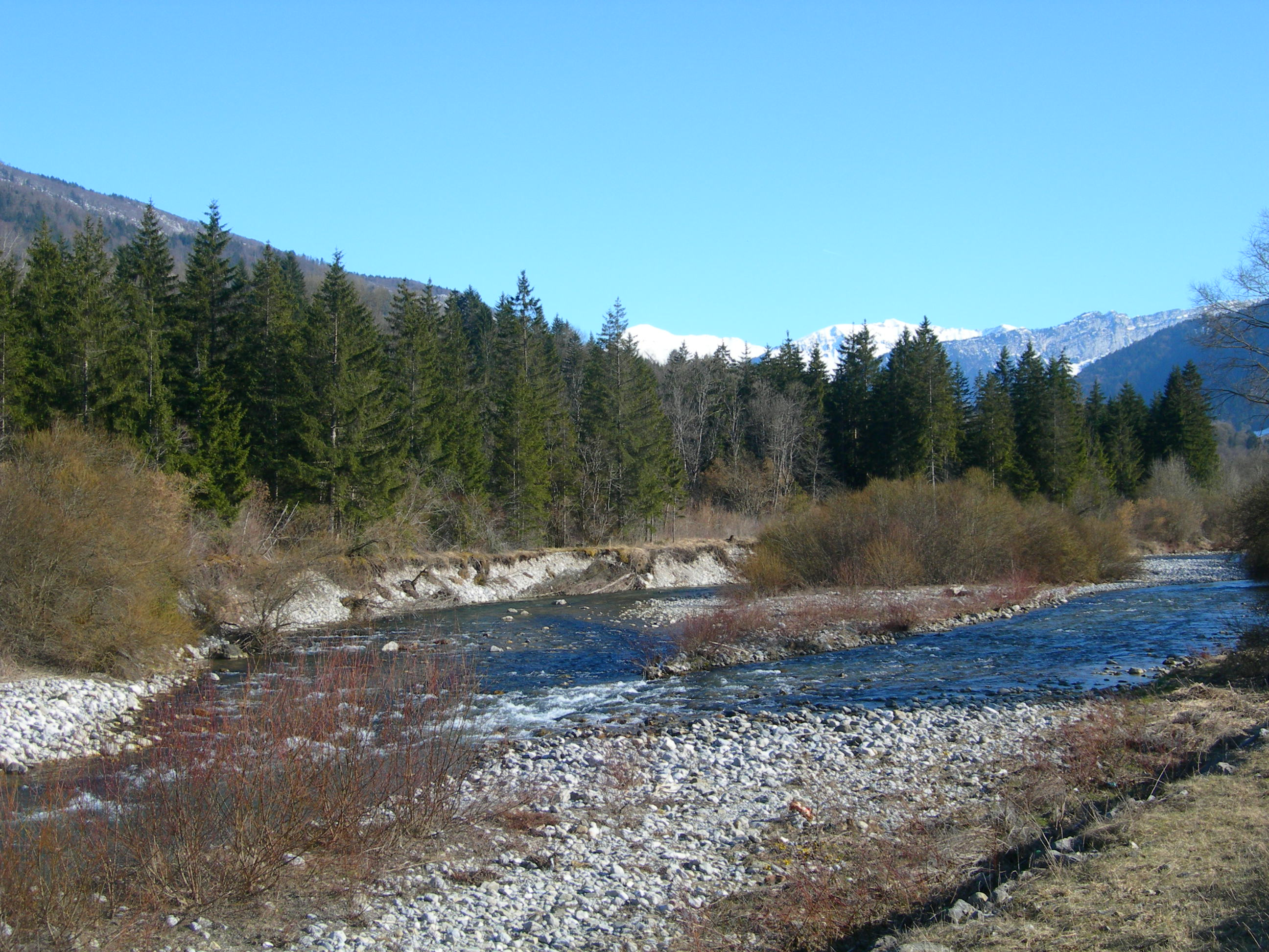 Chéran (in Lescheraines, France) March 2009